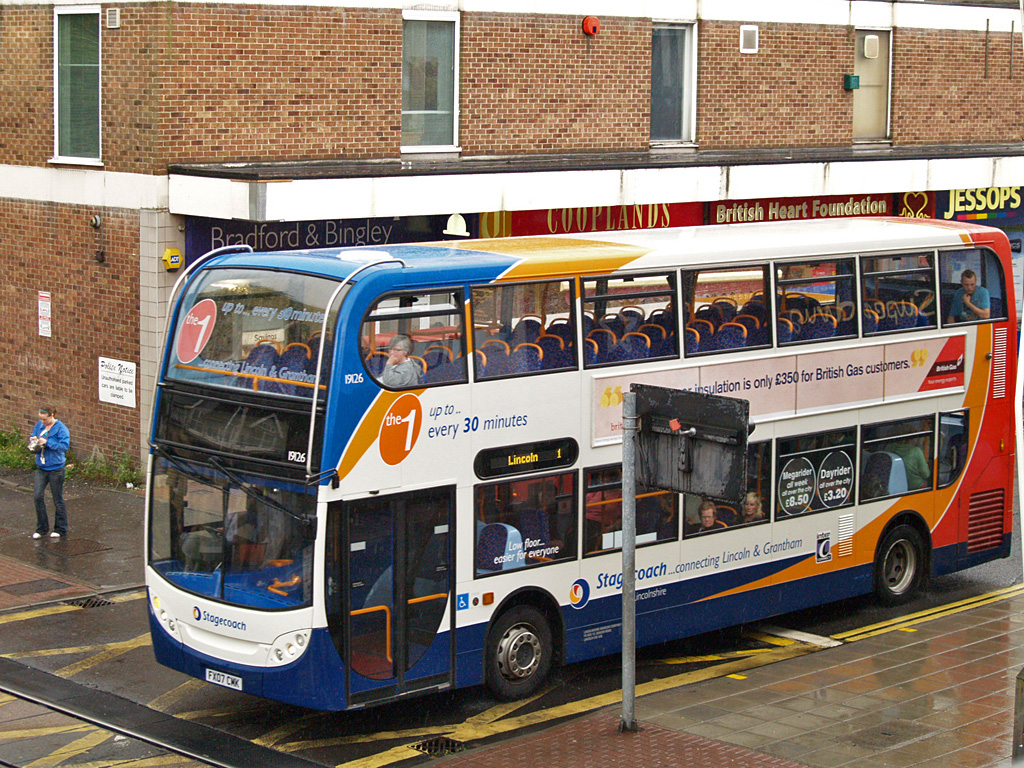 Stagecoach in Lincolnshire (Lincolnshire Roadcar Company Limited) 19126 FX07 CMK, an Alexander-Dennis Trident 2 built 2007 with an Alexander-Dennis Enviro400 H47/33F body on High Street, Lincoln at the railway level crossing with the 12:35 Grantham Bus Station to Lincoln City Bus Station via Leadenham 1 service. Friday 11th July 2008.